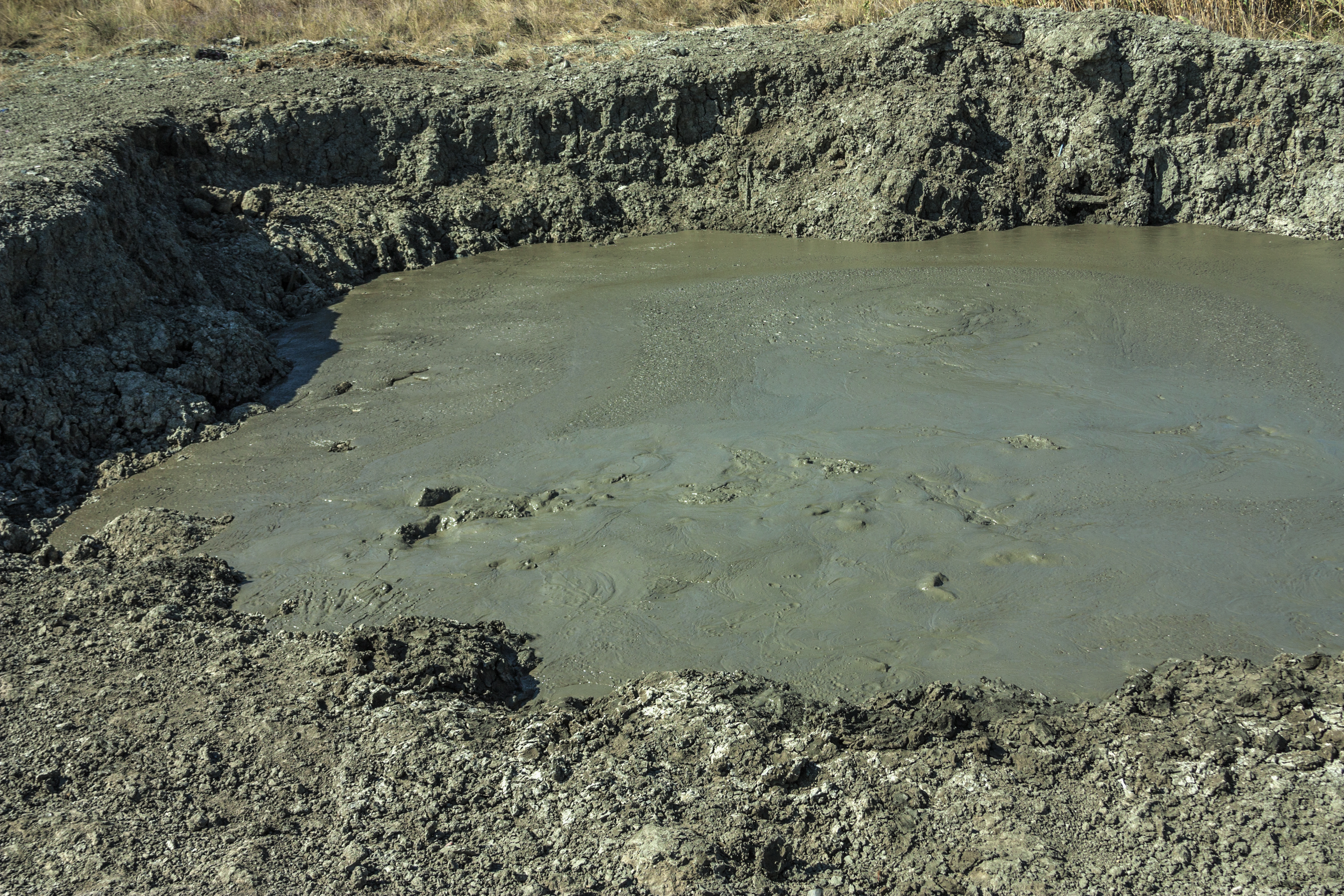 Mud volcano on the cape of "Pekla", Temryuksky district. Krasnodar Krai